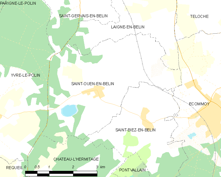 Map of French municipality